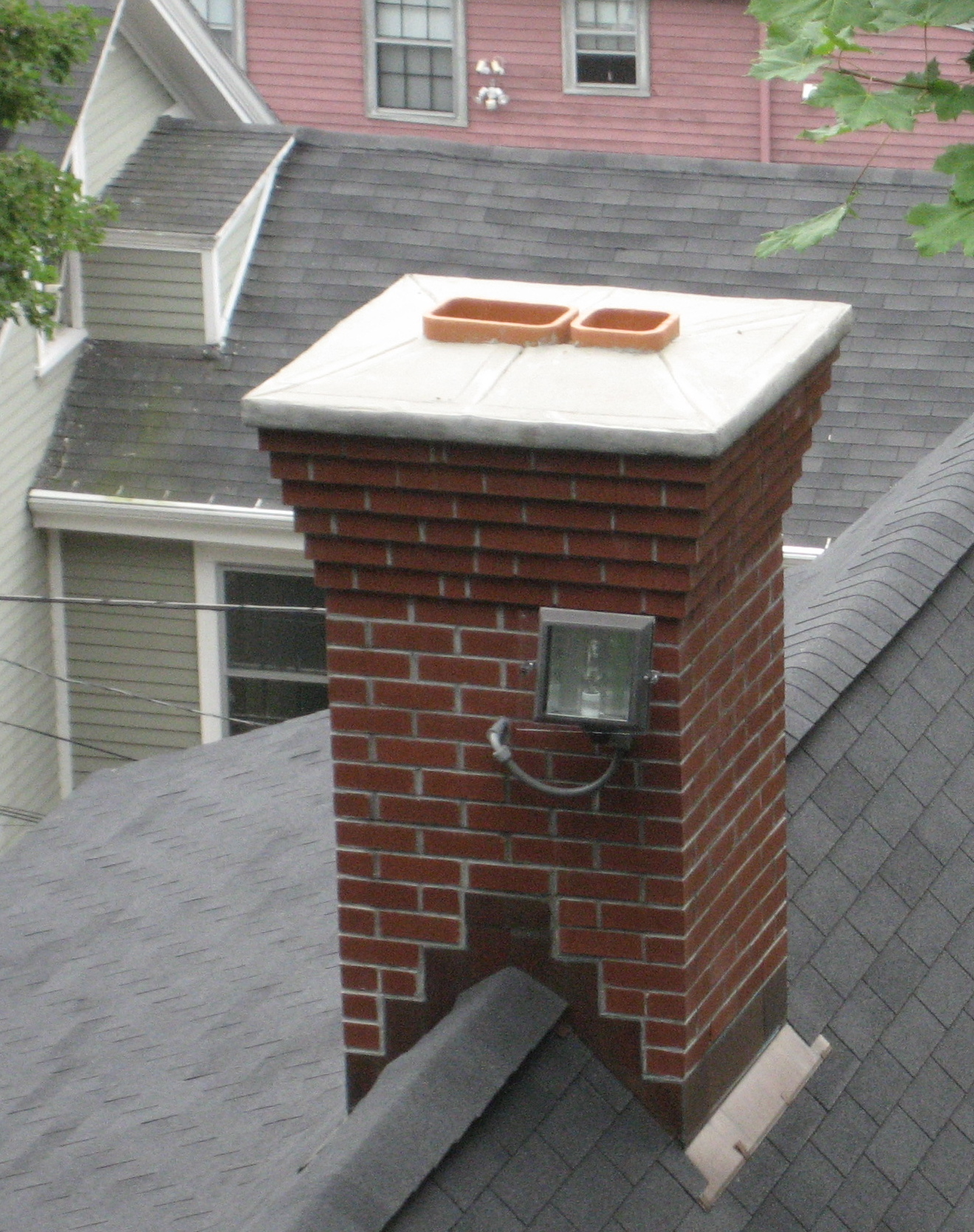 Chimney of house. As seen from above on Prospect Park hill, Providence, Rhode Island USA